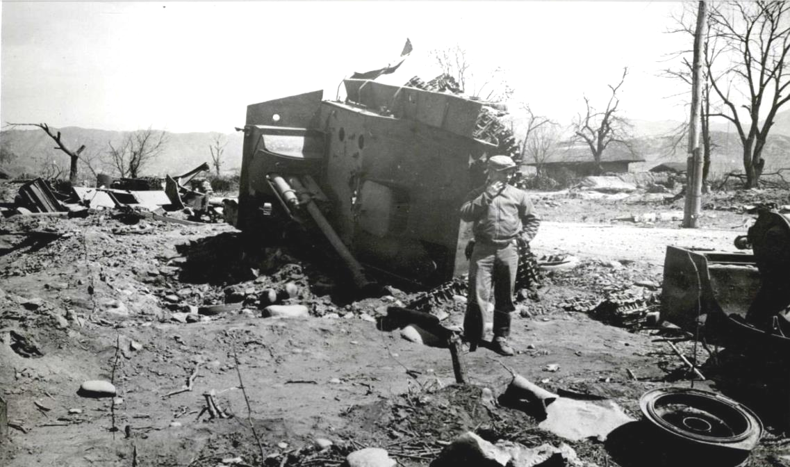 ‘A knocked out enemy self propelled 76mm gun lays on its side north of Chunchon’ RG 127, 1st Marine Division Photographic Supplement, Apr. 1951, NARA